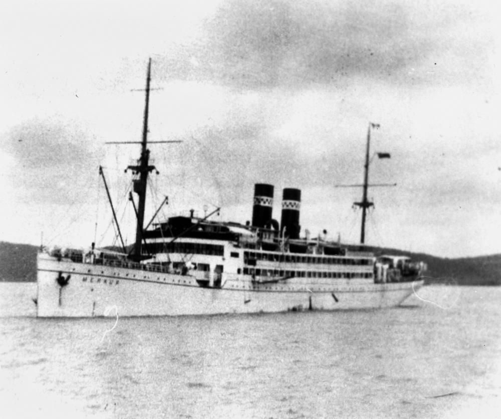 5,952 GRT passenger ship Merkur, built in Germany in 1924 and bought by Burns, Philp in 1935